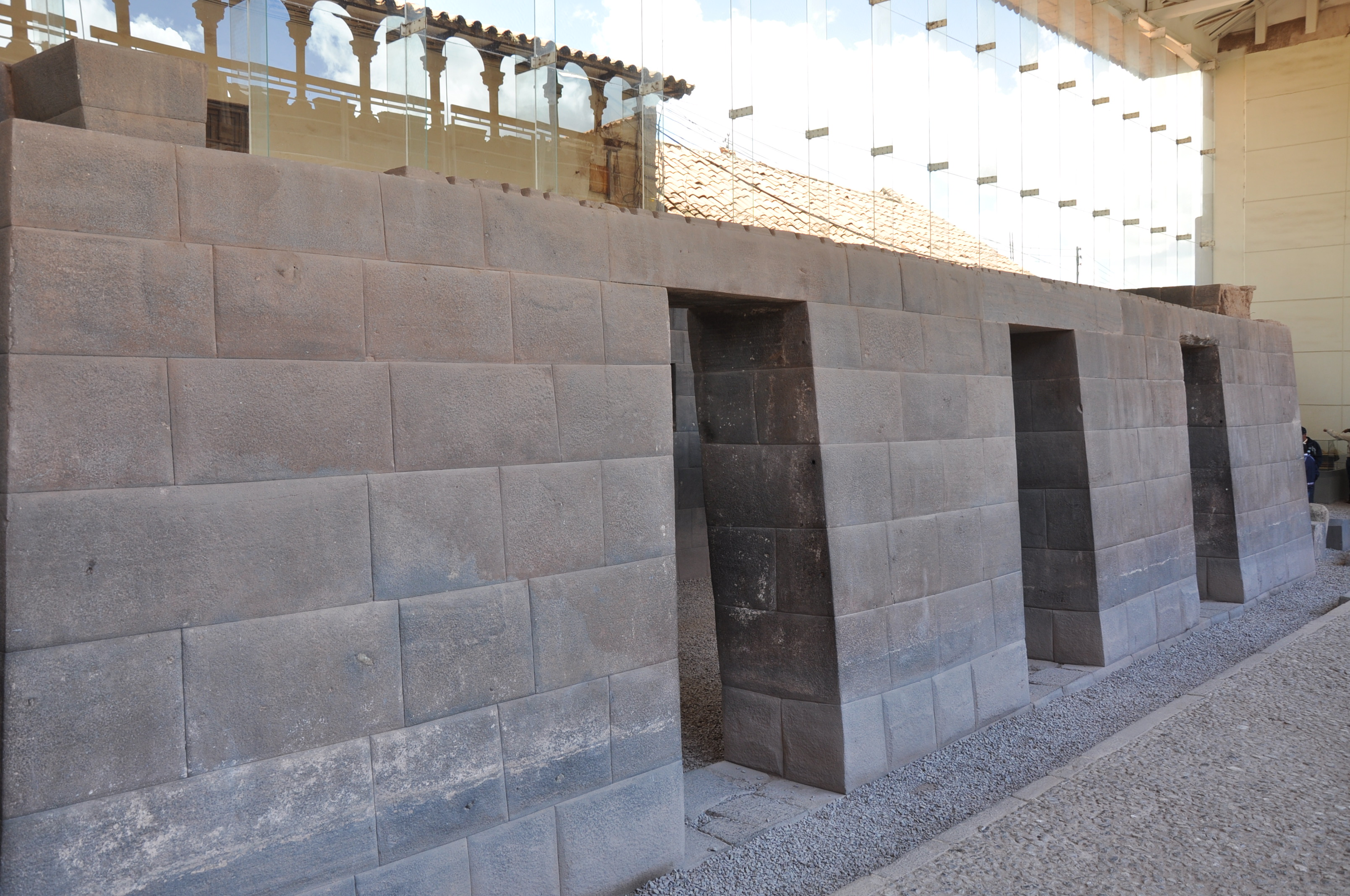 Architecturally, it consisted of high walls that circled the temple. Inside, there were rectangular rooms with beautifully polished floors. Surrounding the courtyard there were walls decorated with precious metals. The stones used by the incas to built the temple were plutonic diorite rocks and calcareous rocks, they were brought from the quarries located 20 to 30 Km away from the temple, called Waqoto and Rumiqolca. The walls were built using the biggest stones for the foundations, and smaller ones at the top. The incas used a thin layer of clay. These walls reached to the lintel of the niches and windows, and over the rocks the incas put mud bricks. At the top of the walls, some wood was placed to hold a straw roof. Documents about temple say that on the wall there was a frame of gold, as decorative element, two palms wide and four fingers high. The shape of the walls are trapezoidal and the vertical inclination is typical of the inca's architecture. We can observe how the incas were masters of stone work. The stones were perfectly joined not even a needle could penetrate the space in between. The floors were made also of stone and in some rooms had the floor covered with compacted clay and earth. In some other rooms, dust was used to cover the floors. For the supreme beings, among them the God Wiracocha, the Sun, the Moon and Stars and the mother Pachamama, everyone of them had a room in Koricancha's temple